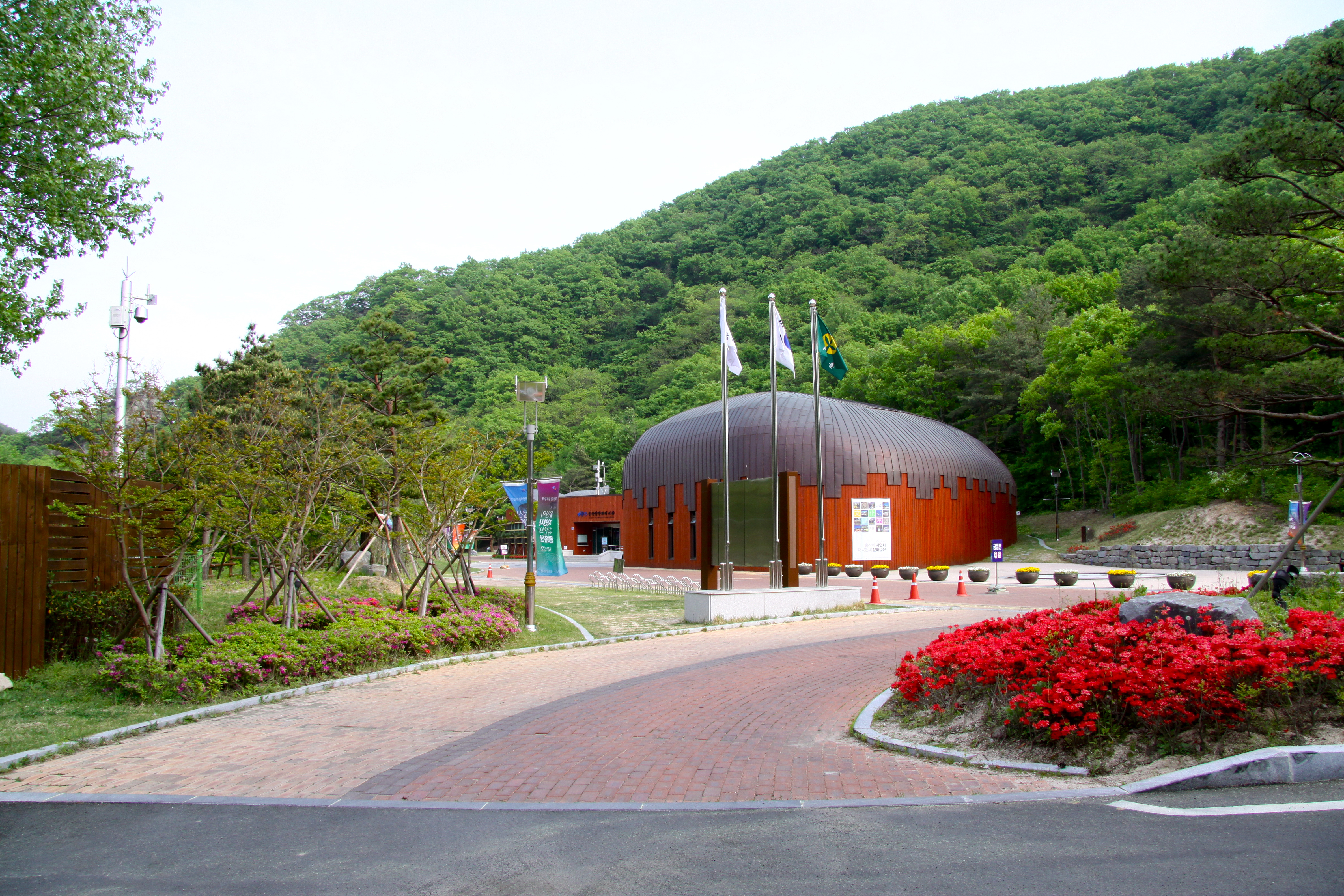 museum